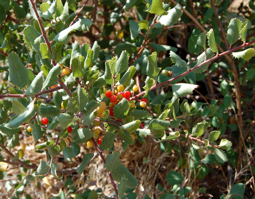 Rhamnus crocea from Rackensack Canyon, Maricopa County, Arizona, USA. Holly-leaf Buckthorn.